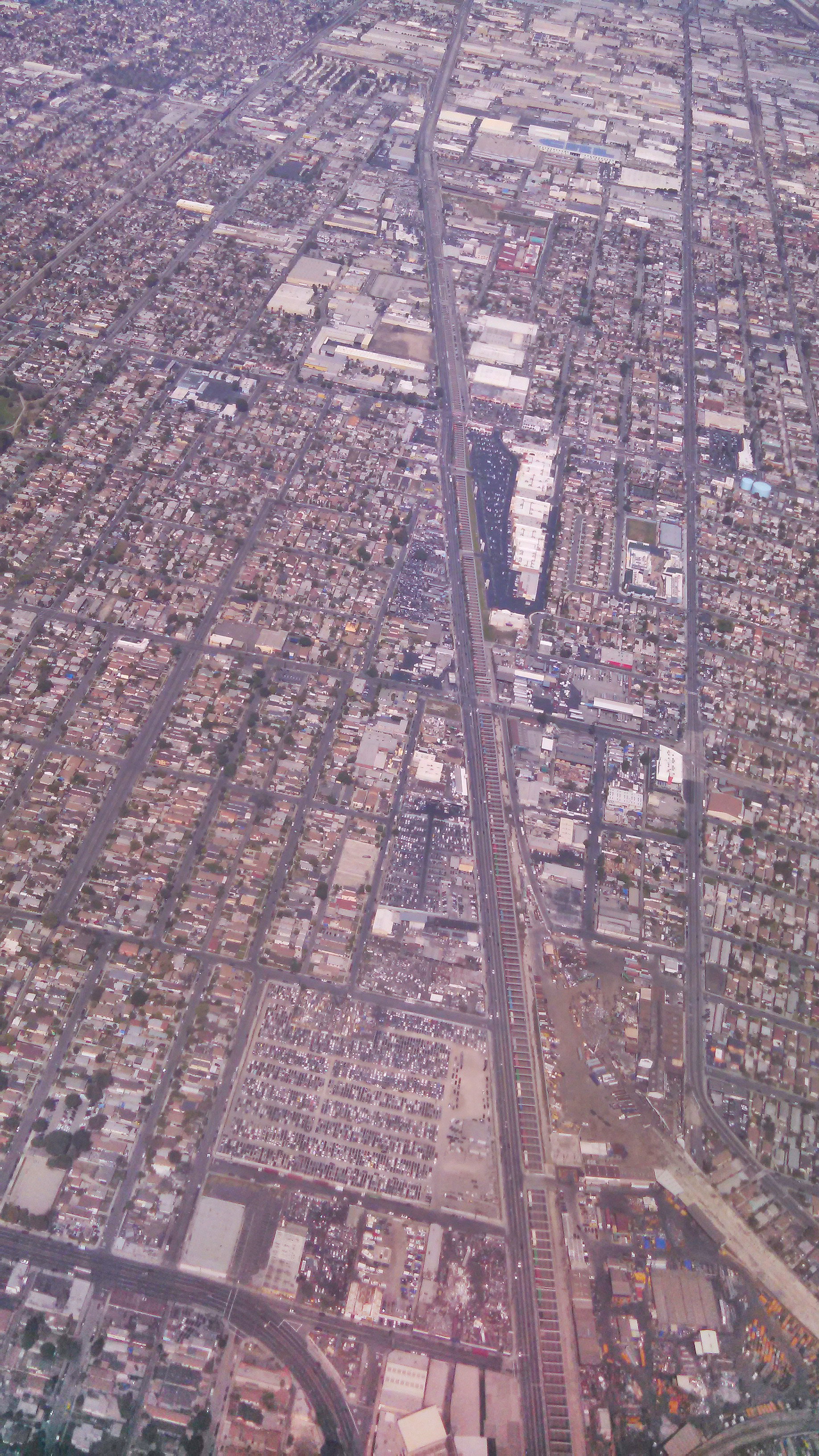 Alameda corridor, Los Angeles, California. Note train traveling in the corridor. Location indicated is around those white buildings right in the center of the photo.